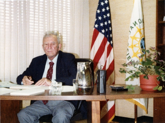 Polar explorer Laurence M. Gould during an oral history interview.